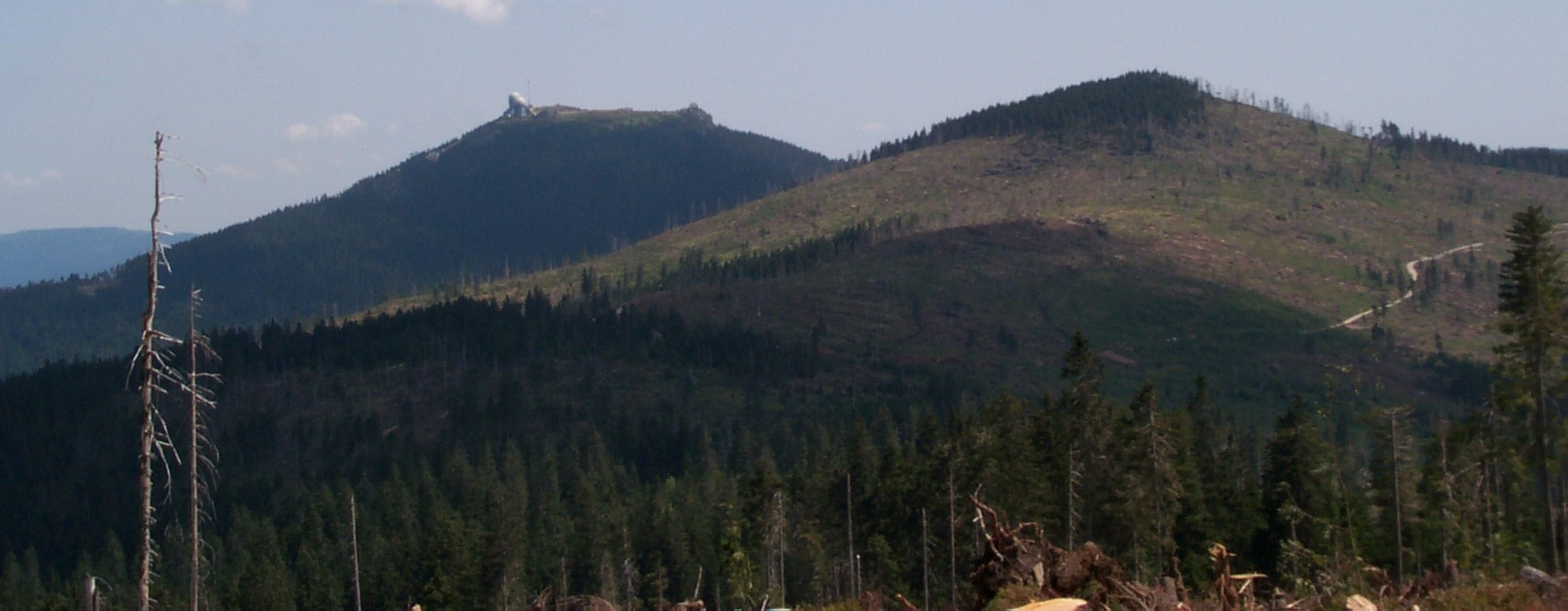 View from Enzian to Kleiner (right) and Großer Arber (left).